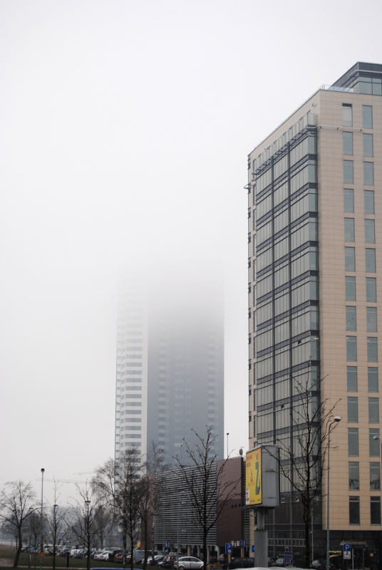 Fog in Klaipėda